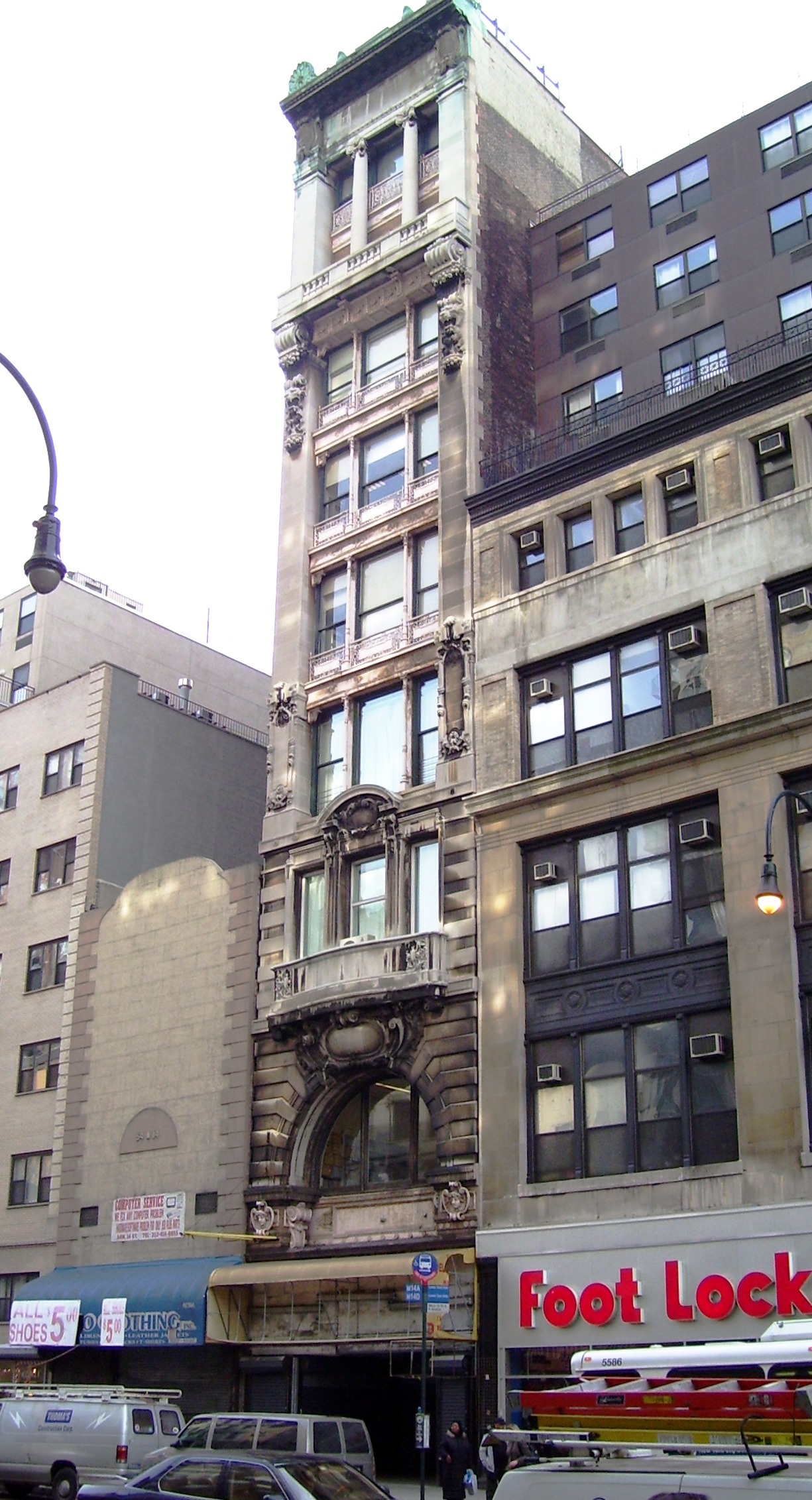 56 West 14th Street, between Fifth and Sixth Avenues, was part of R.H. Macy's Dry Goods Store. Macy's original store, opened in 1858, was at 204-206 Sixth Avenue at the corner of 14th Street, but as the business grew it expanded into other nearby buildings. This 9-story Beaux-Arts building was built in 1897 and was designed by William Schickel and Isaac E. Ditmars. It was designated a NYC landmark on December 20, 2011. (Sources: NYCLPC Designation Report, AIA Guide to NYC (4th ed.)}